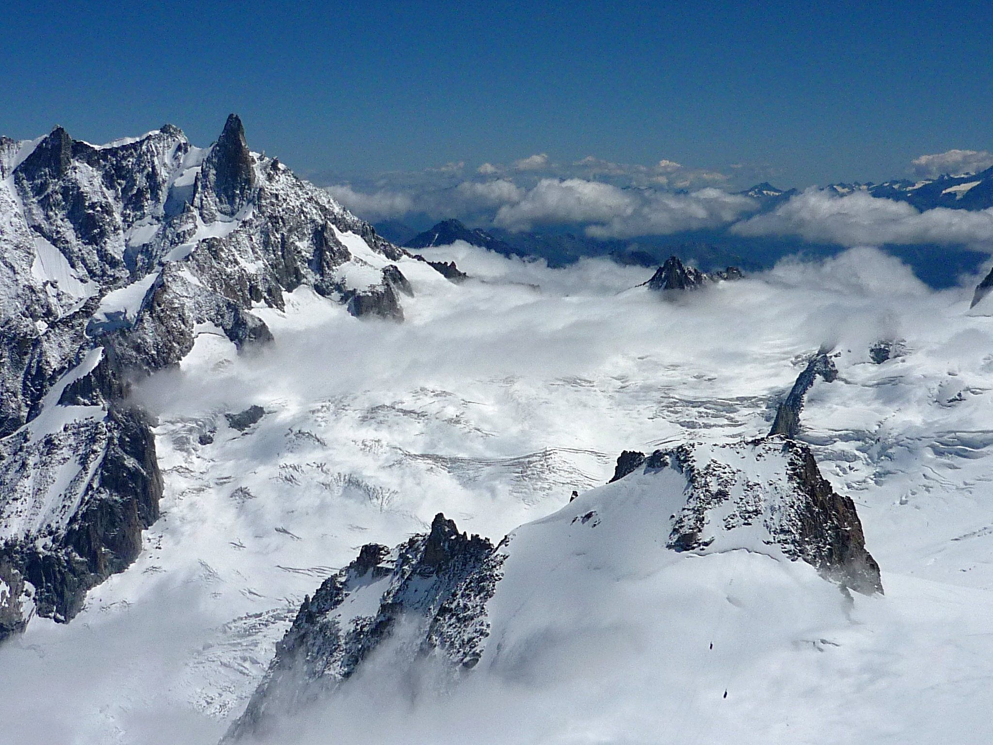 Géant Glacier, Gros Rognon, Dent du géant and aiguilles Marbrées seen from aiguille du Midi, Chamonix-Mont-Blanc, Haute-Savoie, France